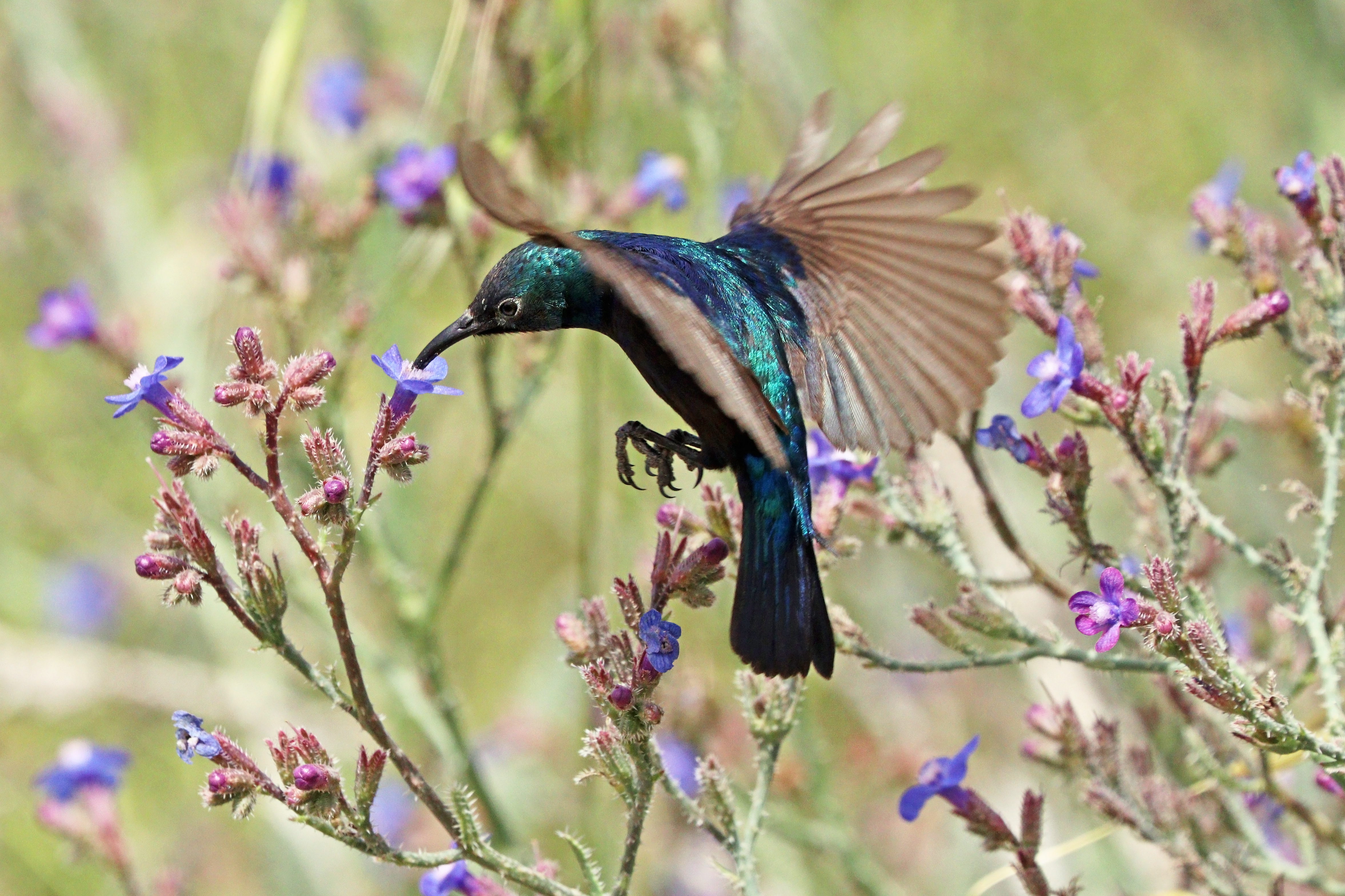 Palestine sunbird (Cinnyris osea osea) male, Dana Biosphere Reserve, Jordan